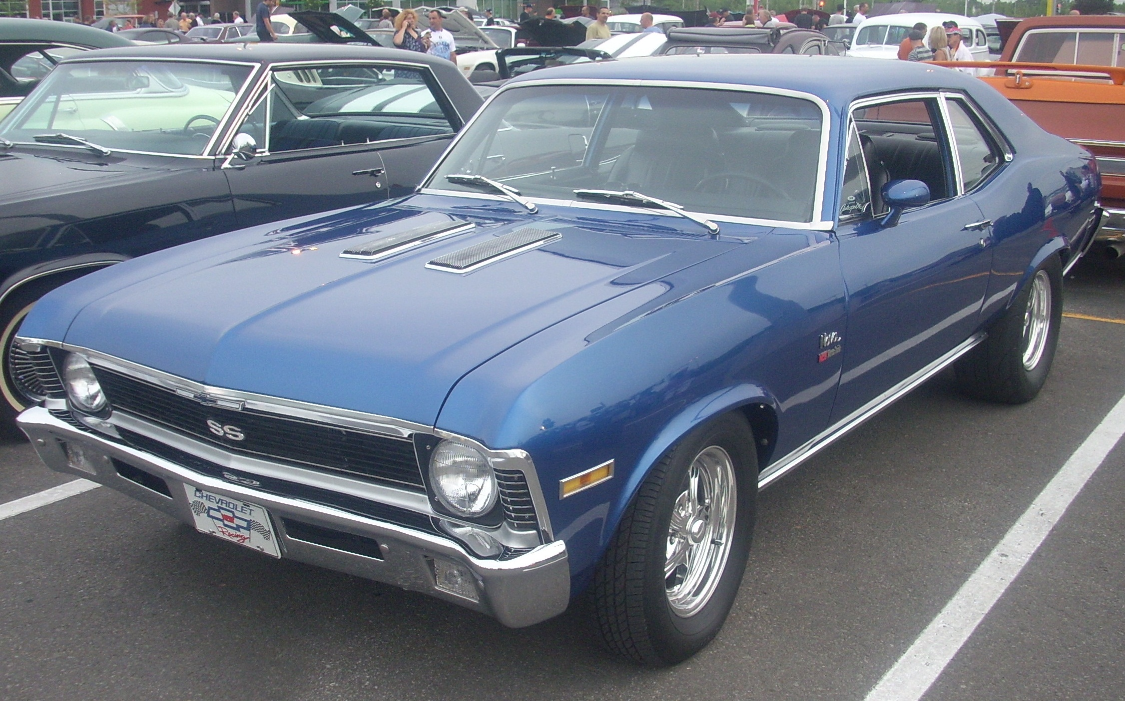 Chevrolet Nova photographed in Laval, Quebec, Canada at Centropolis Laval.